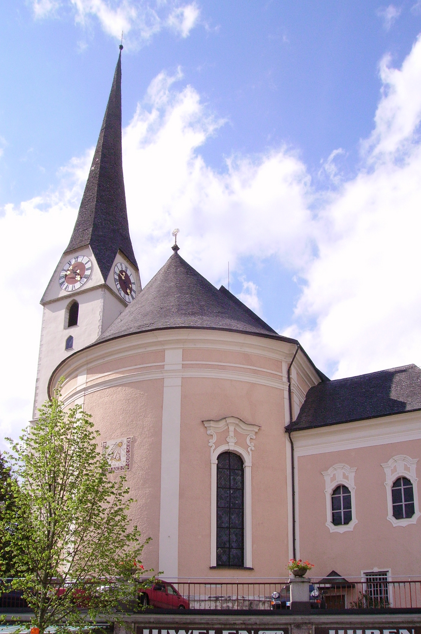 church in Bad Ischl, Austria